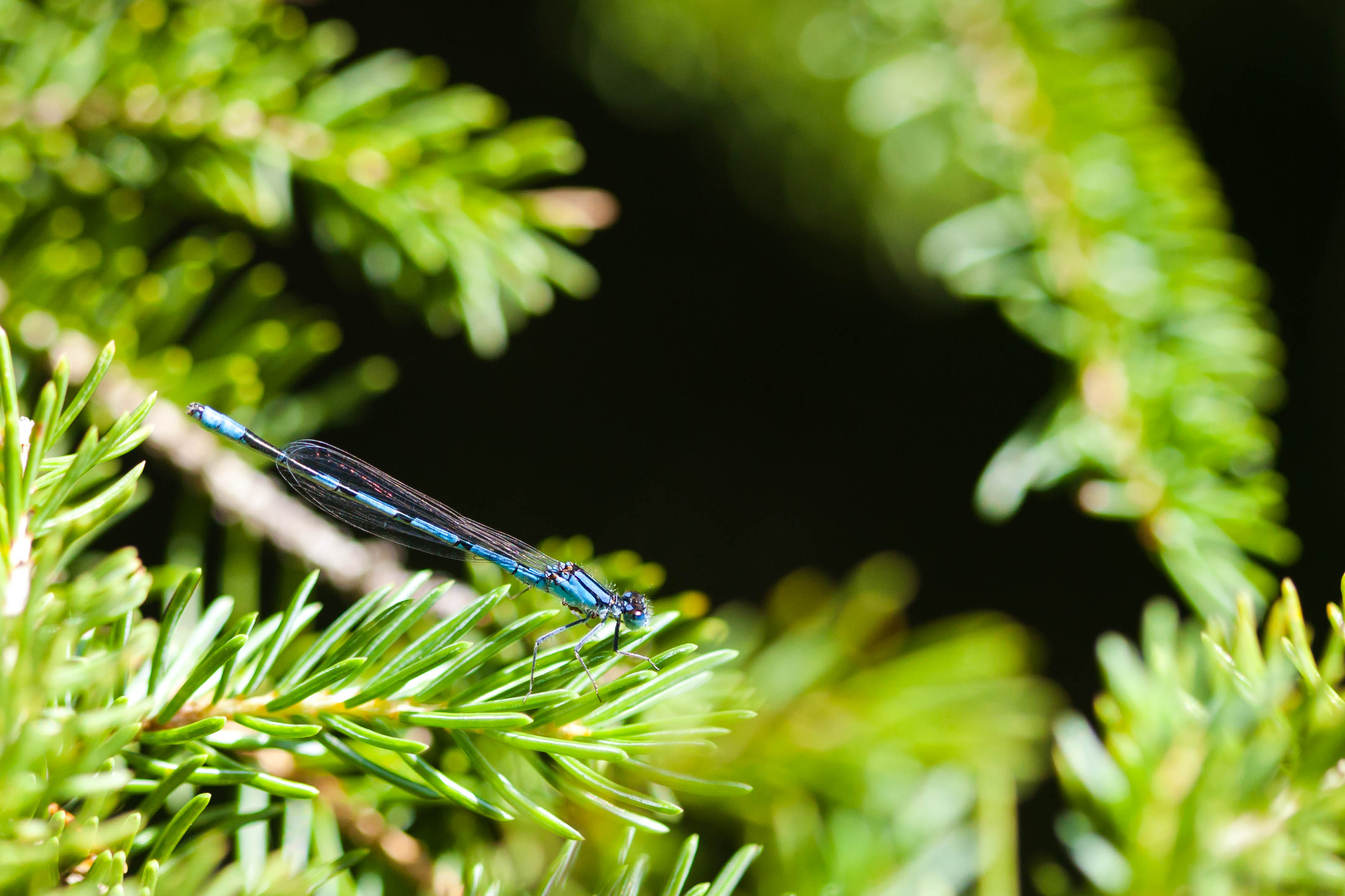 Northern or boreal bluet